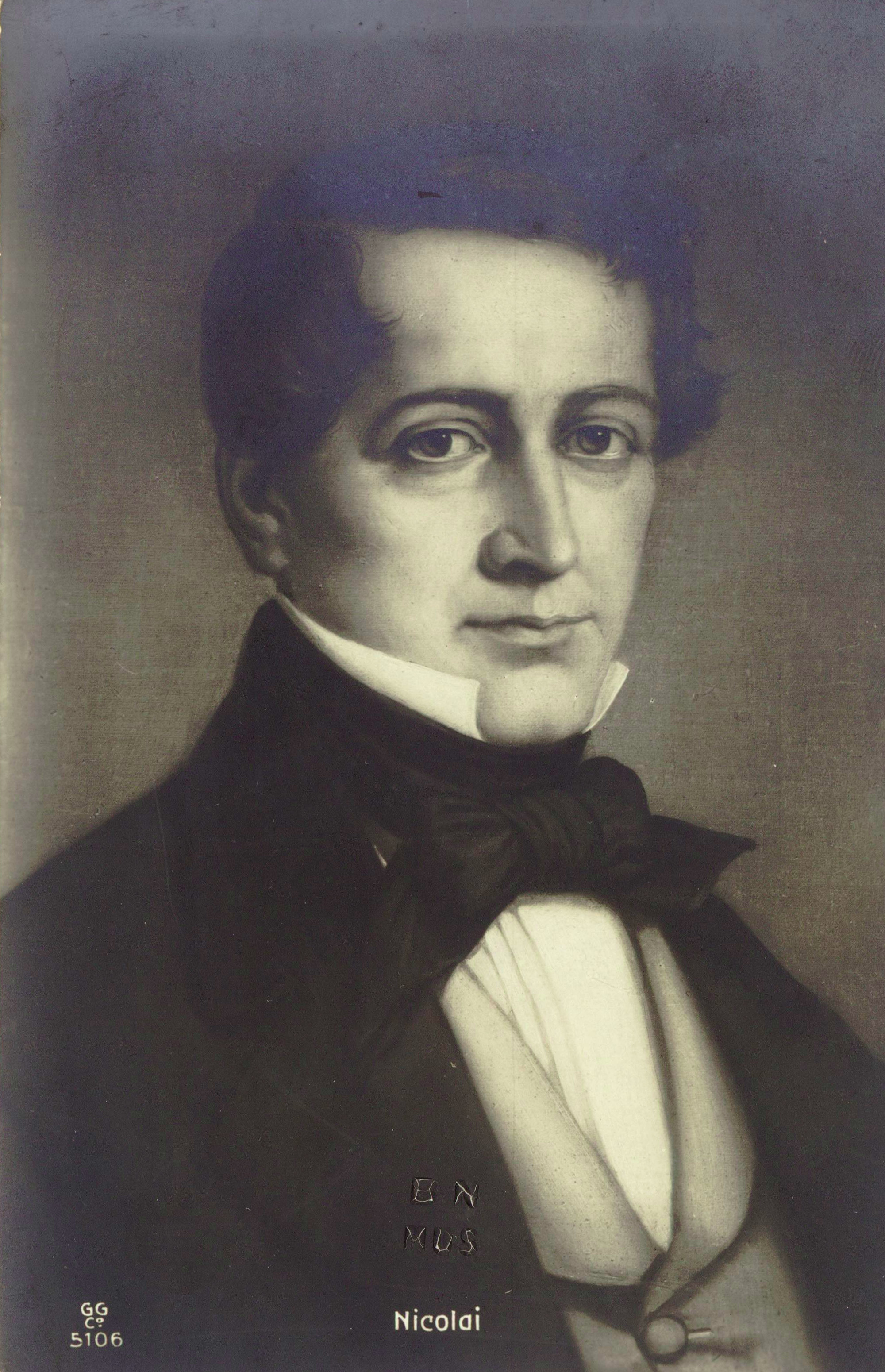 German conductor and composer Otto Nicolai (1810-1849). Photograph of an unidentified painting.